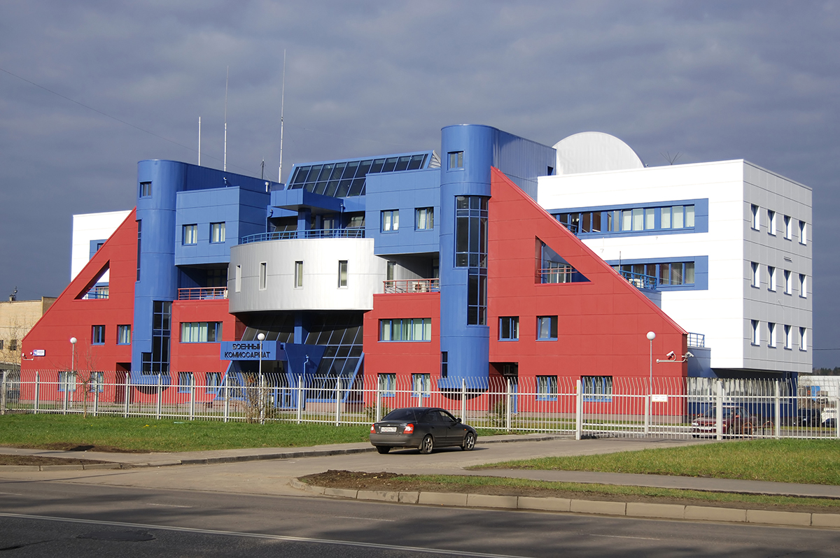 Military registration and enlistment office (Panfilovsky Avenue, Matushkino District, Zelenograd).Building is stylized in Russian state tricolor flag colors.